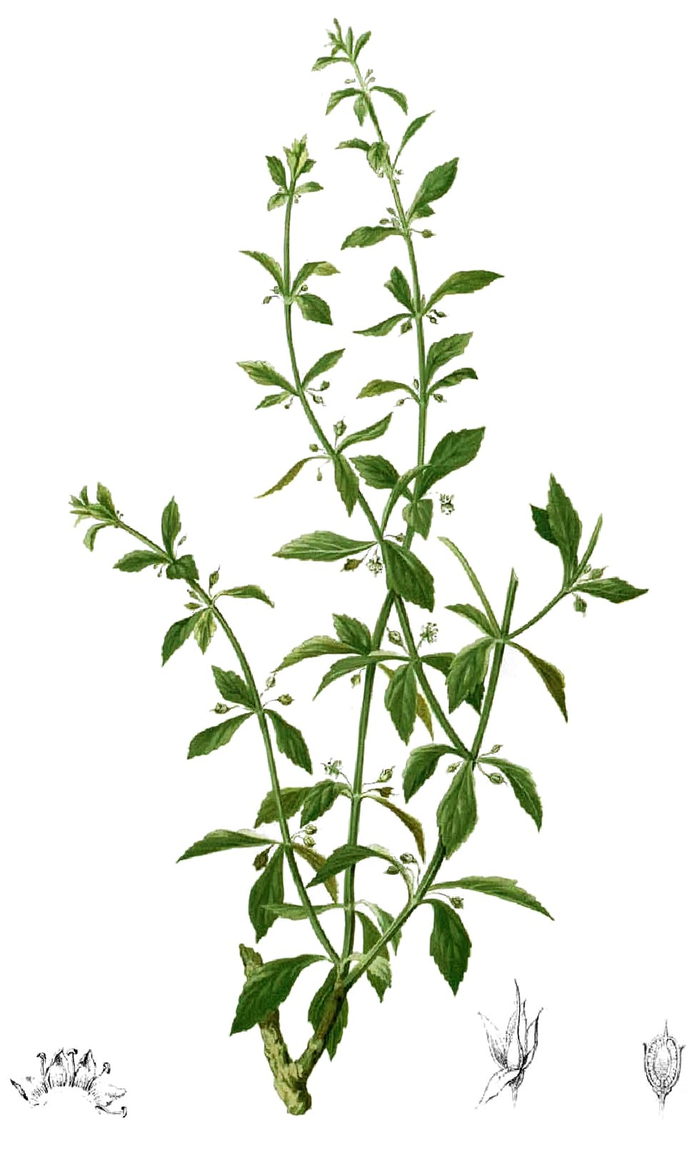 Plate from book